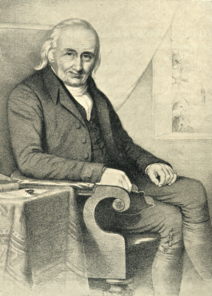 William Kirby (1759-1850) British entomologist